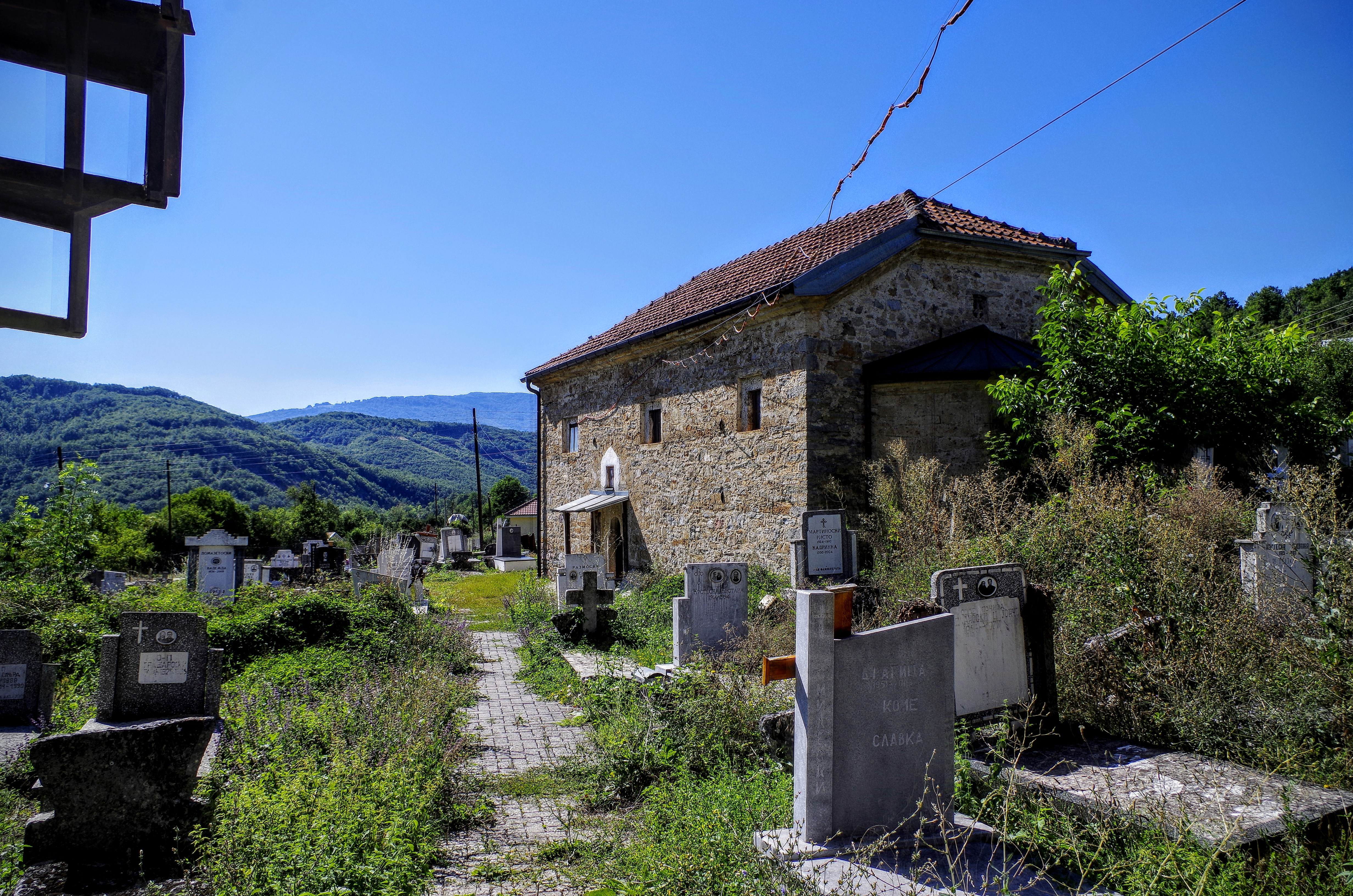 View of the St. Nedela Church in the village Slatino